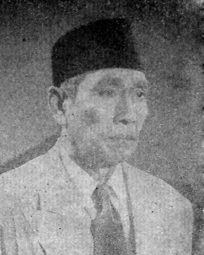 Astaman, an Indonesian film actor.